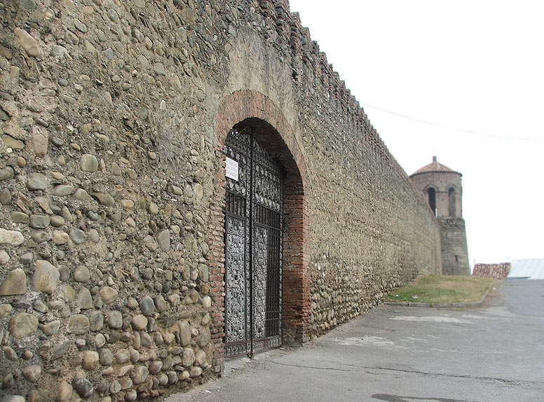 The gate to Palace of King Erekle II, in the city centre (style of persian architectural traditions), 18 century